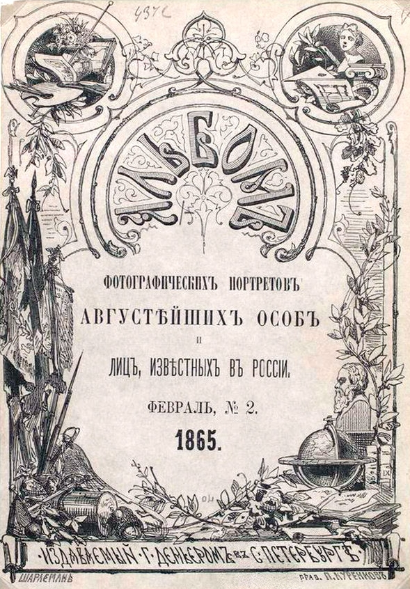 Album of Photographic Portraits of Their Majesties and The Russia's Famous / by A. Denier. SPb, 1865. Vol. 2. Title page.